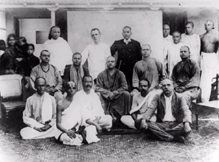 Swami Vivekananda at Chennai in 1897, after the first tour of the West. Seated on floor:(second) Biligiri Iyengar; (fourth) M. C. Nanjunda Rao. Seated in chairs: Tarapada, Shivananda, Vivekananda, Niranjananada, Sadananda. Standing: Alasinga Perumal (first), J.J. Goodwin (second), M.N. Banerjee (third).